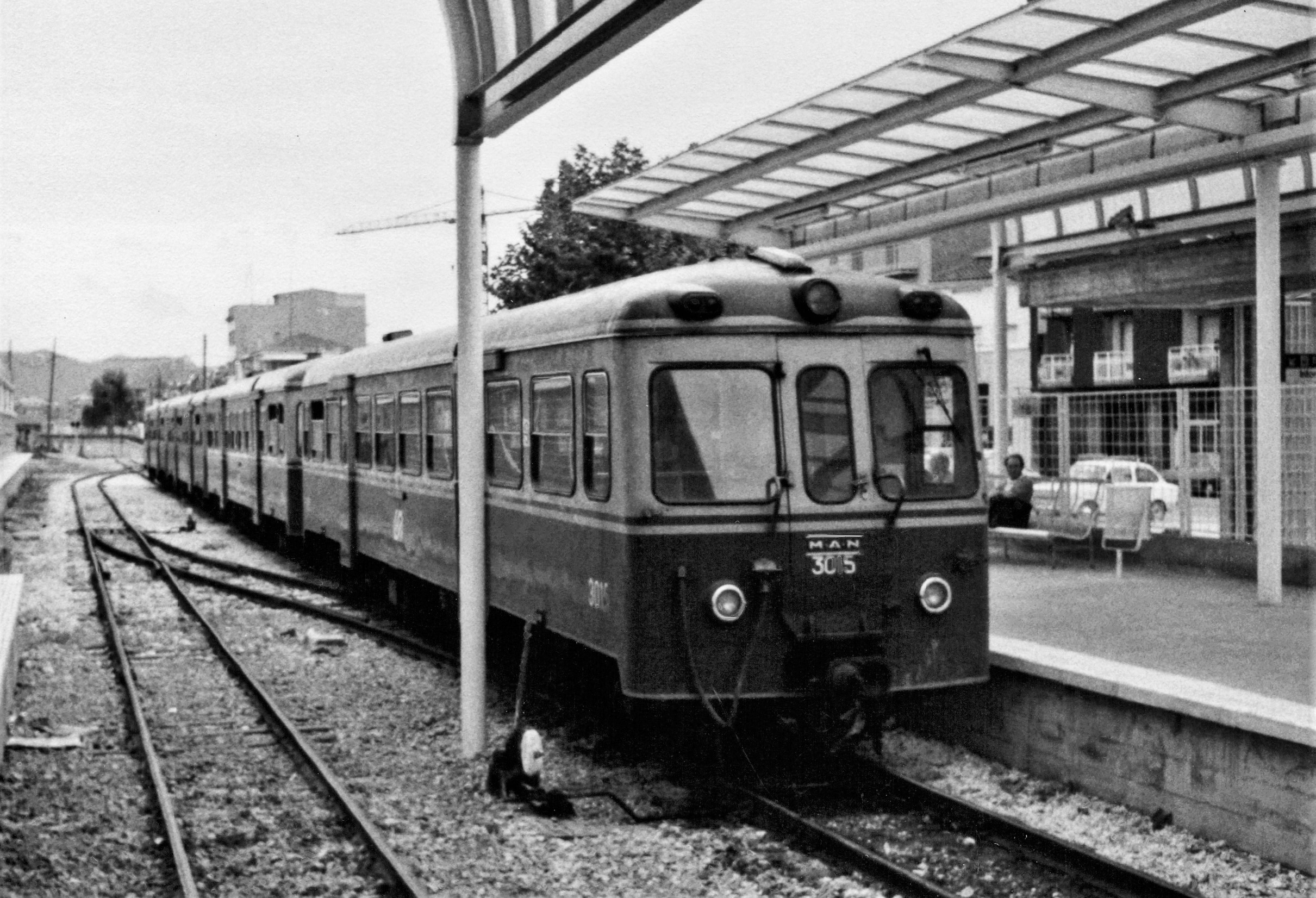 A train with a consist of four MAN Class 3000 diesel railcars of Ferrocarrils de la Generalitat de Catalunya, leaving the Igualada station to Barcelona.